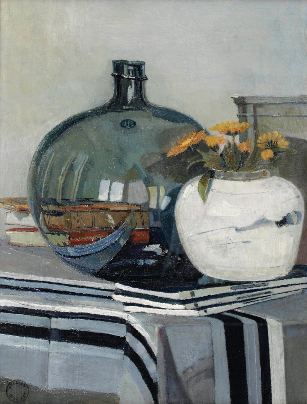 Stilleven met boeken, zoutzuurfles, bloemen in gemberpot op gestreept tafelkleed